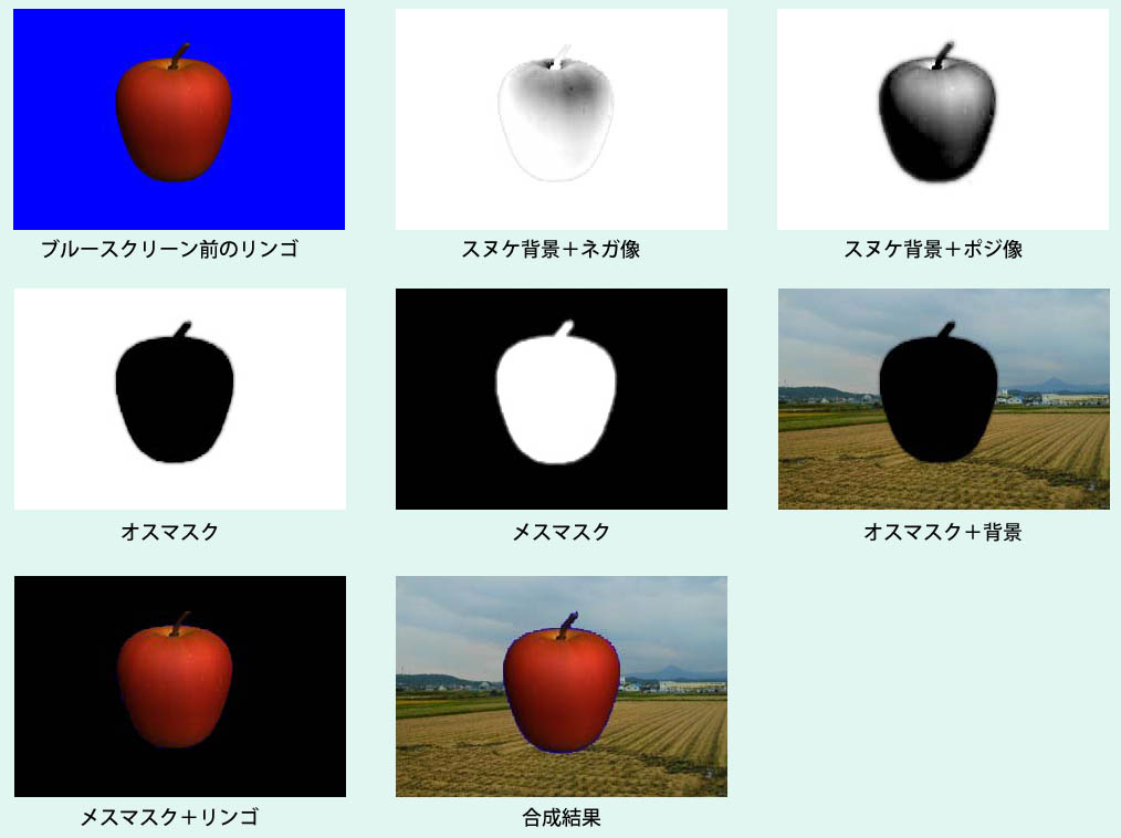 Process of Blue screen compositing. Japanese version. 1) An apple in front of blue screen. 2) Negative image and transparent background. 3) positive image and transparent background. 4) Matte with foreground as opaque, background as transparent. 5) Matte with foreground as transparent, background as opaque. 6) Background with foreground unexposed. 7) An apple with background unexposed. 8) Composite image.